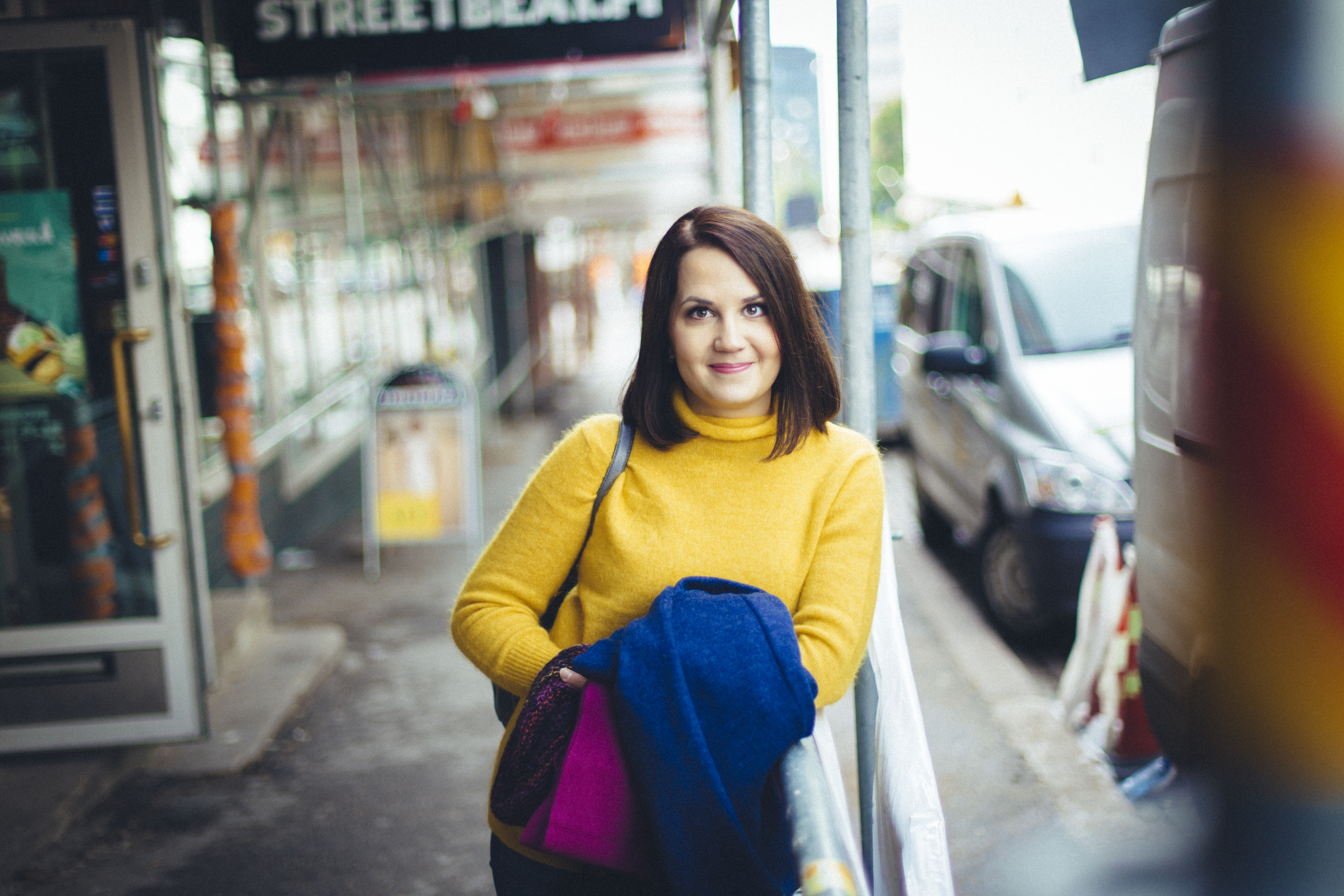 Sanni Grahn-Laasonen